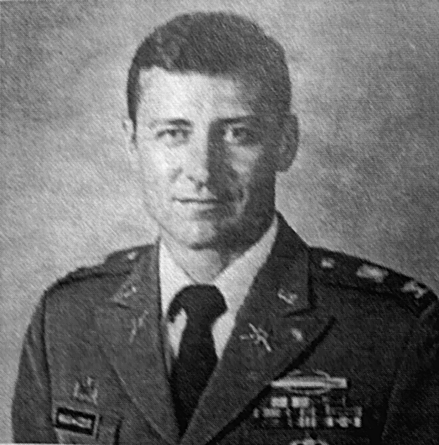 U.S. Army Photo of Colonel Wass de Czege, first director of the United States Army's School of Advanced Military Studies